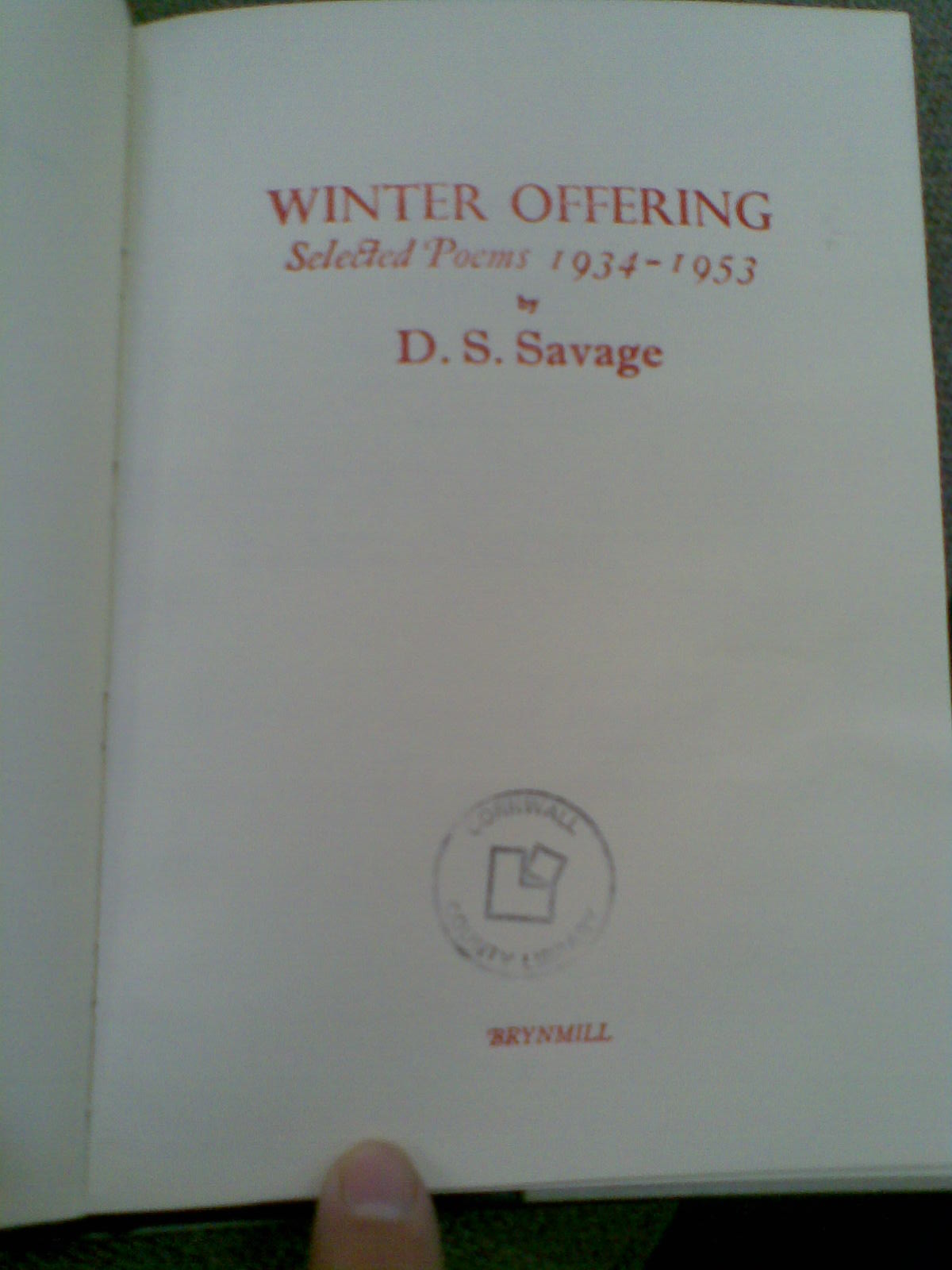 Title page of D.S. SavageWinter offering : selected poems 1934-1953, Gringley-on-the-Hill, S. Yorks. : Brynmill, c1990. ISBN 0907839517. An edition of 190 copies. Copy belonging to Cornwall Studies Centre, Redruth.